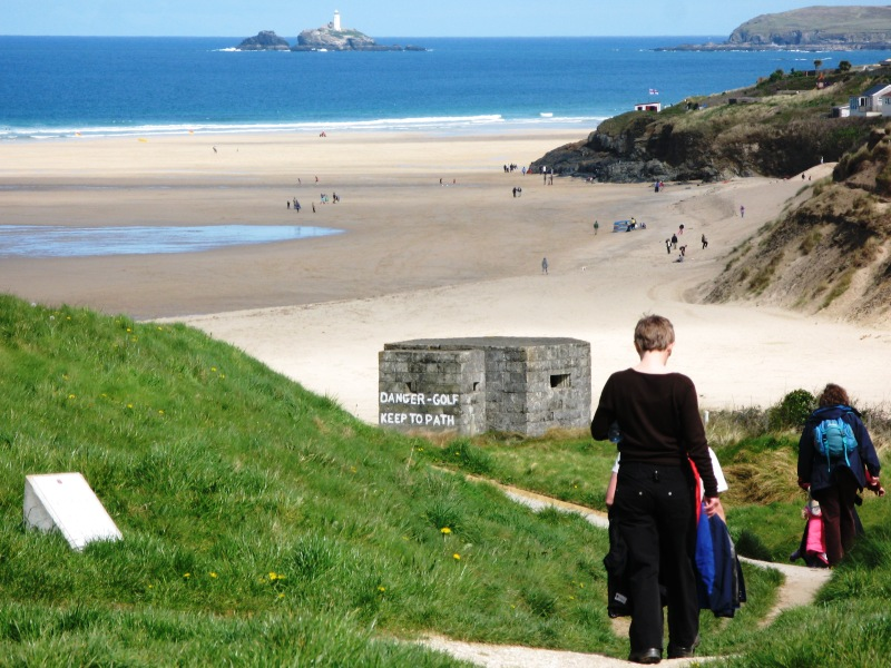 The South West Coast path crossing Lelant Towans, Cornwall, United Kingdom. The beach in the bcakground is at hayle on the opposite side of the Hayle estuary, and Godrevey island can be seen in St Ives Bay with its attendant lighthouse. The walkers are heading westwards towards St Ives.